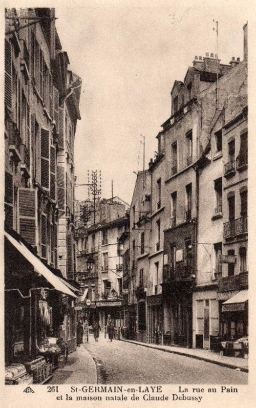 Postcard from c. 1920 showing the street and house in Saint-Gemain-en-Laye where Claude Debussy was born (in house on the right, topped with skylights and chimneys.)